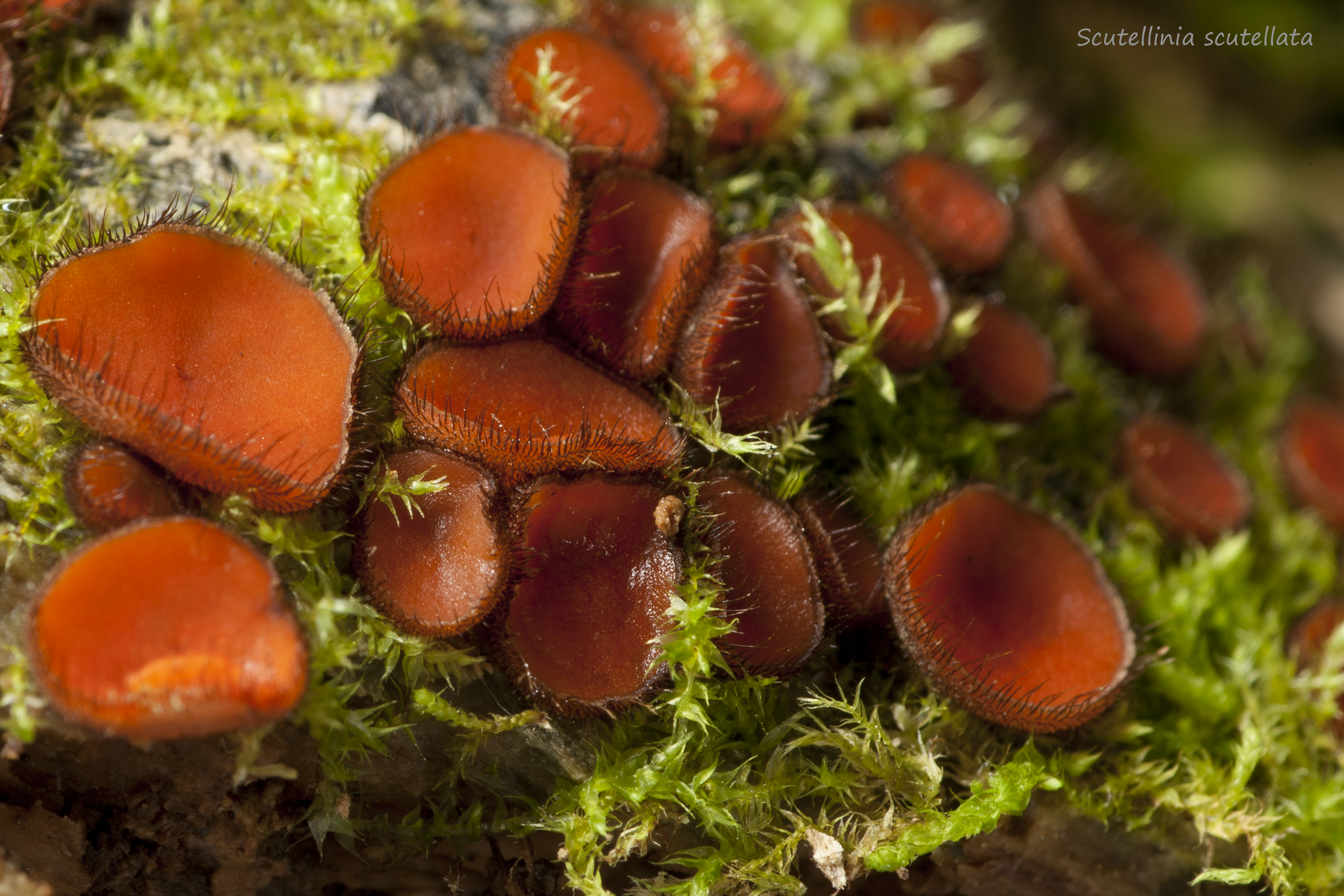 The fungus Scutellinia scutellata on a mossy log.